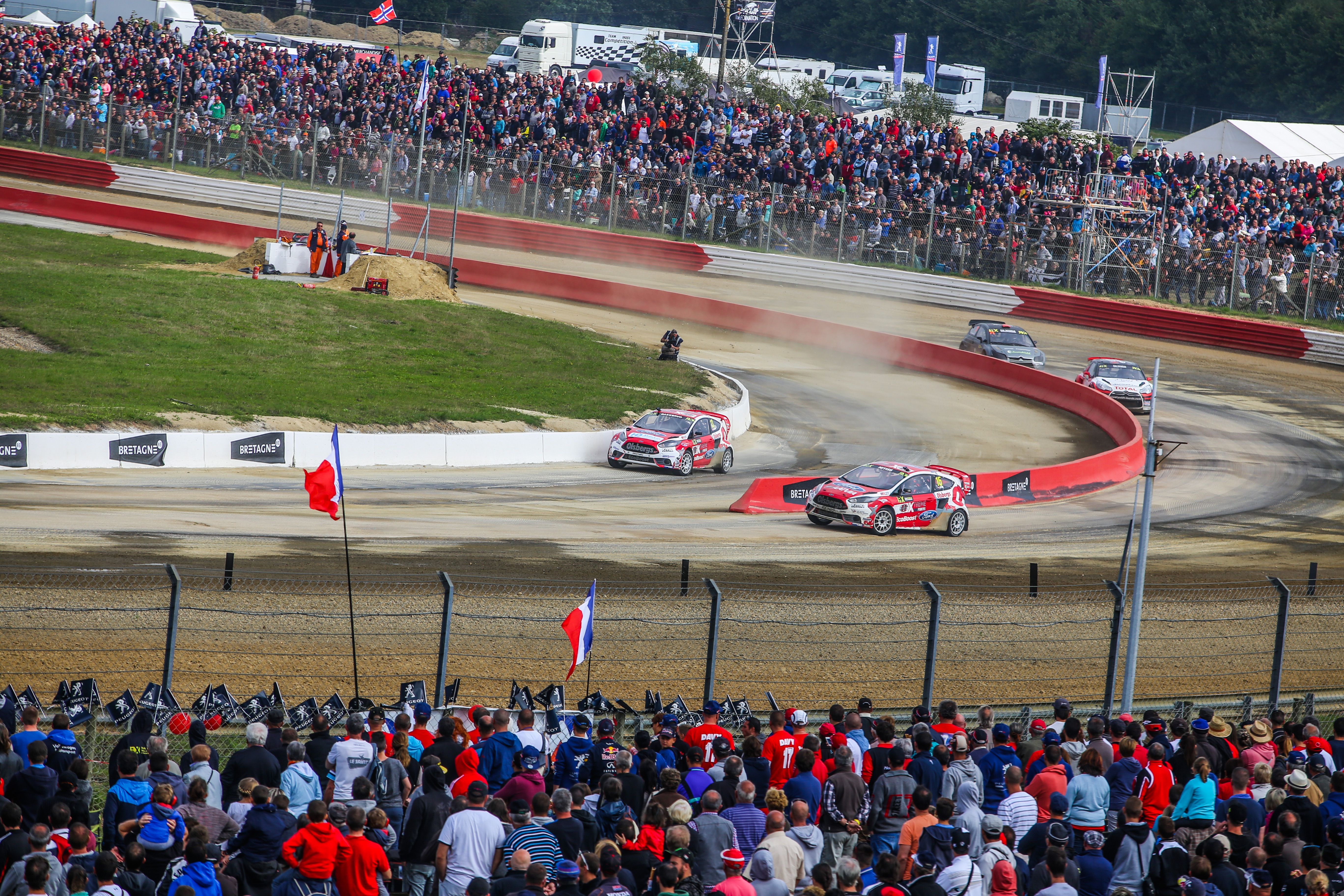 Olsbergs MSE teammates Andreas Bakkerud (left) and Reinis Nitišs fight it out at Round 9 of the 2015 FIA World Rallycross Championship at Circuit de Lohéac, France